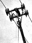 The collector of the Filovia system consisted of "a four wheel truck, placed on top of a boom, which is kept in contact with, and runs under the trolley wires in the same way as the ordinary tramway trolley wheel. Its design and construction have been so perfected that it will allow a displacement of the car to the extent of about 12 ft. from either side of the trolley wires, so that it will take easily very sharp curves, and will not leave the trolley wires even when running at a speed of 18mph.